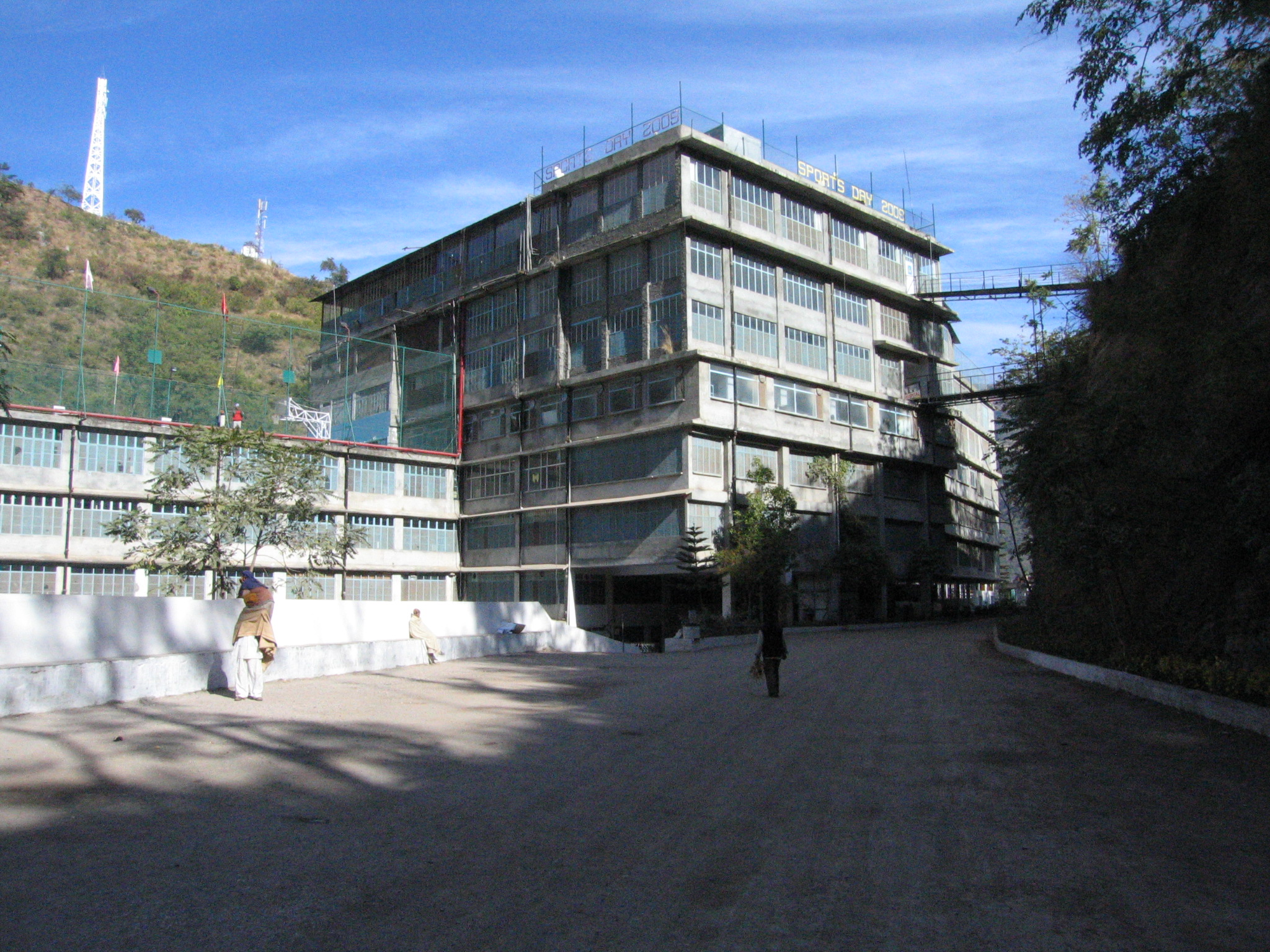 Baru Sahib School